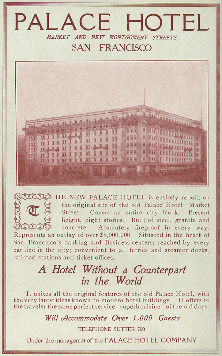 Display advertisement for "The New Palace Hotel" in San Francisco, California, from the 1911 San Francisco Blue Book.